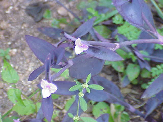 Species: Tradescantia sp. Family: ' Image No. 2